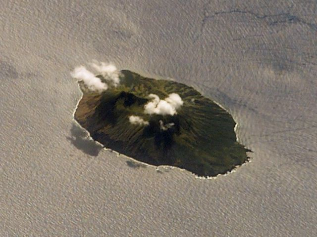 NASA astronaut image of Alamagan Island, Northern Mariana Islands